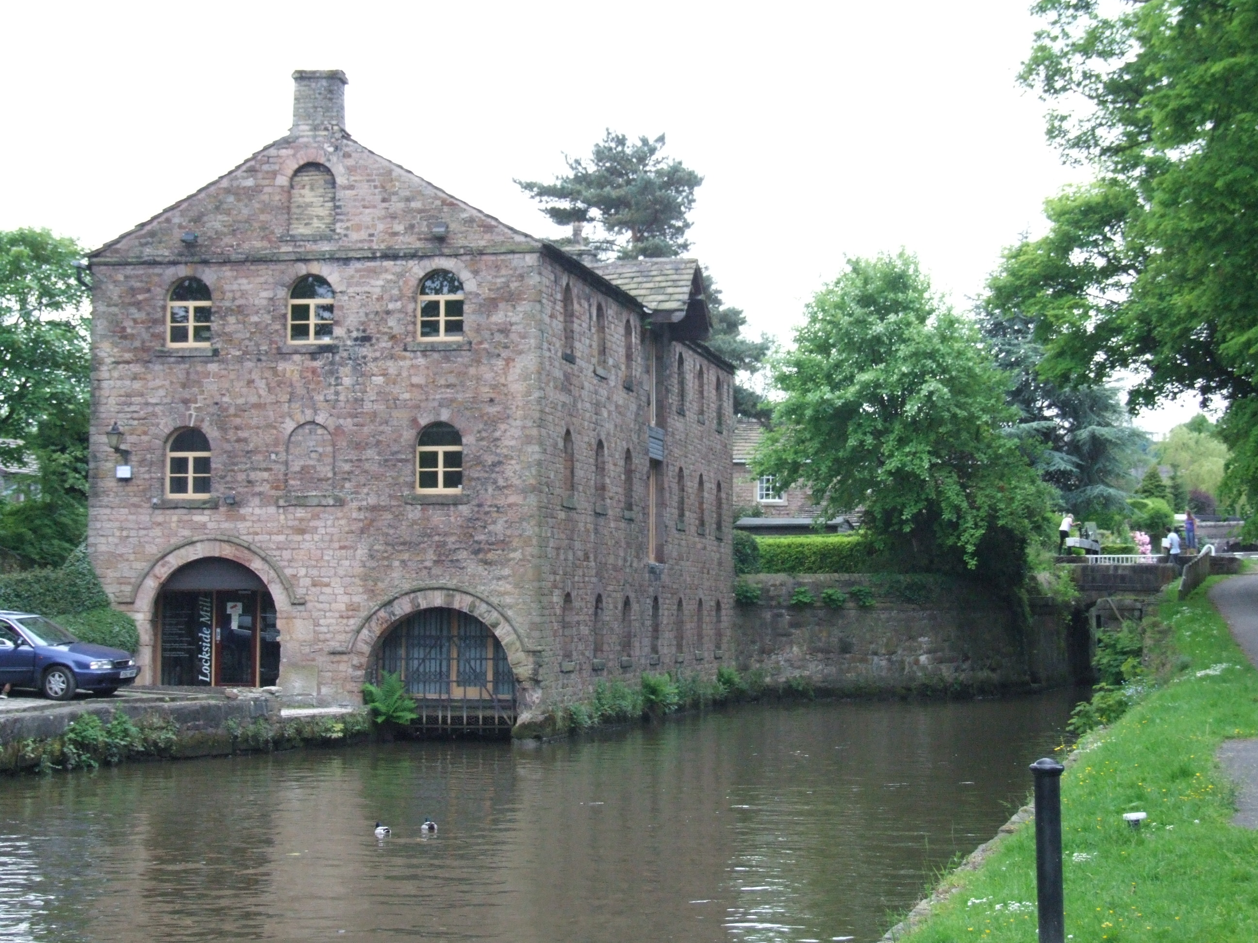 The Peak Forest Canal in Marple, Greater Manchester. After a level run from Dukinfield, the canal crosses the River Goyt.Marple locks, are a flight of 16 locks that were opened in 1804. They raise the canal 65.2m (214 ft). Samuel Oldknow's warehouse